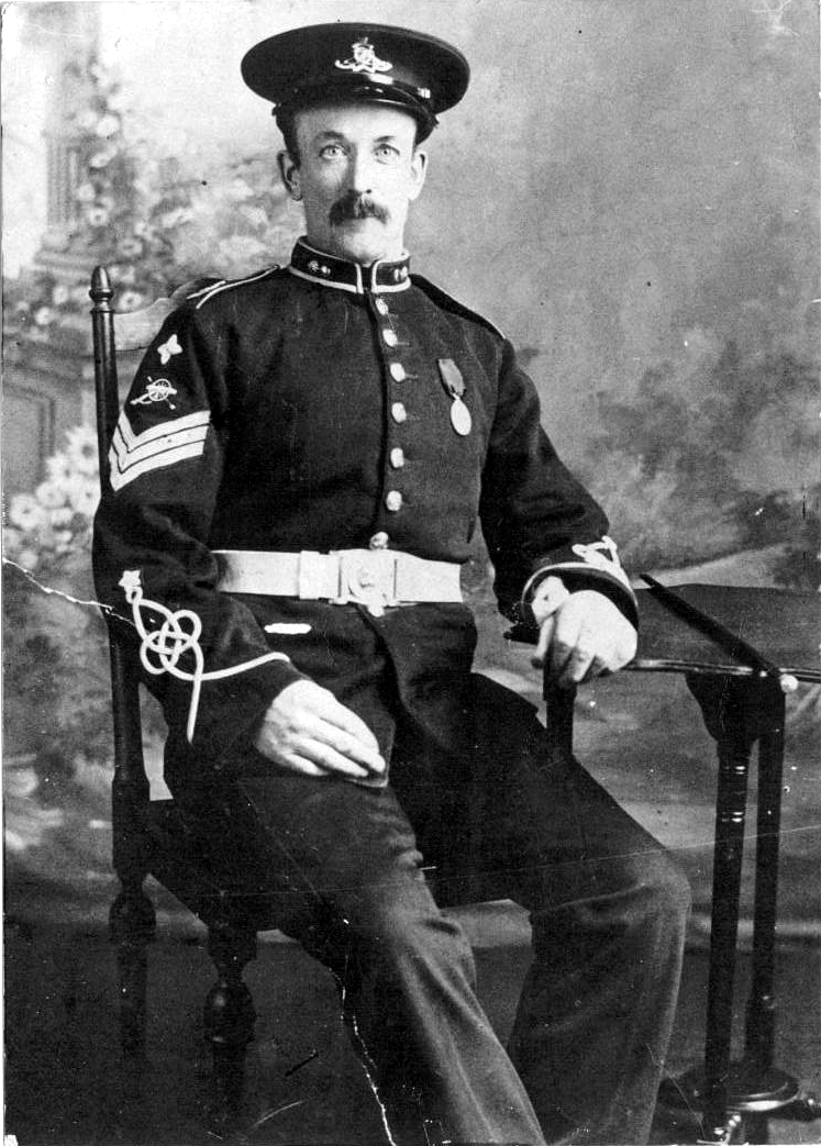 Sergeant Andrew Foster 12 Elgin cottages Dysart Fife Scotland Grandson of Donald Mckenzie born Killiemuir Isle of Skye Scotland